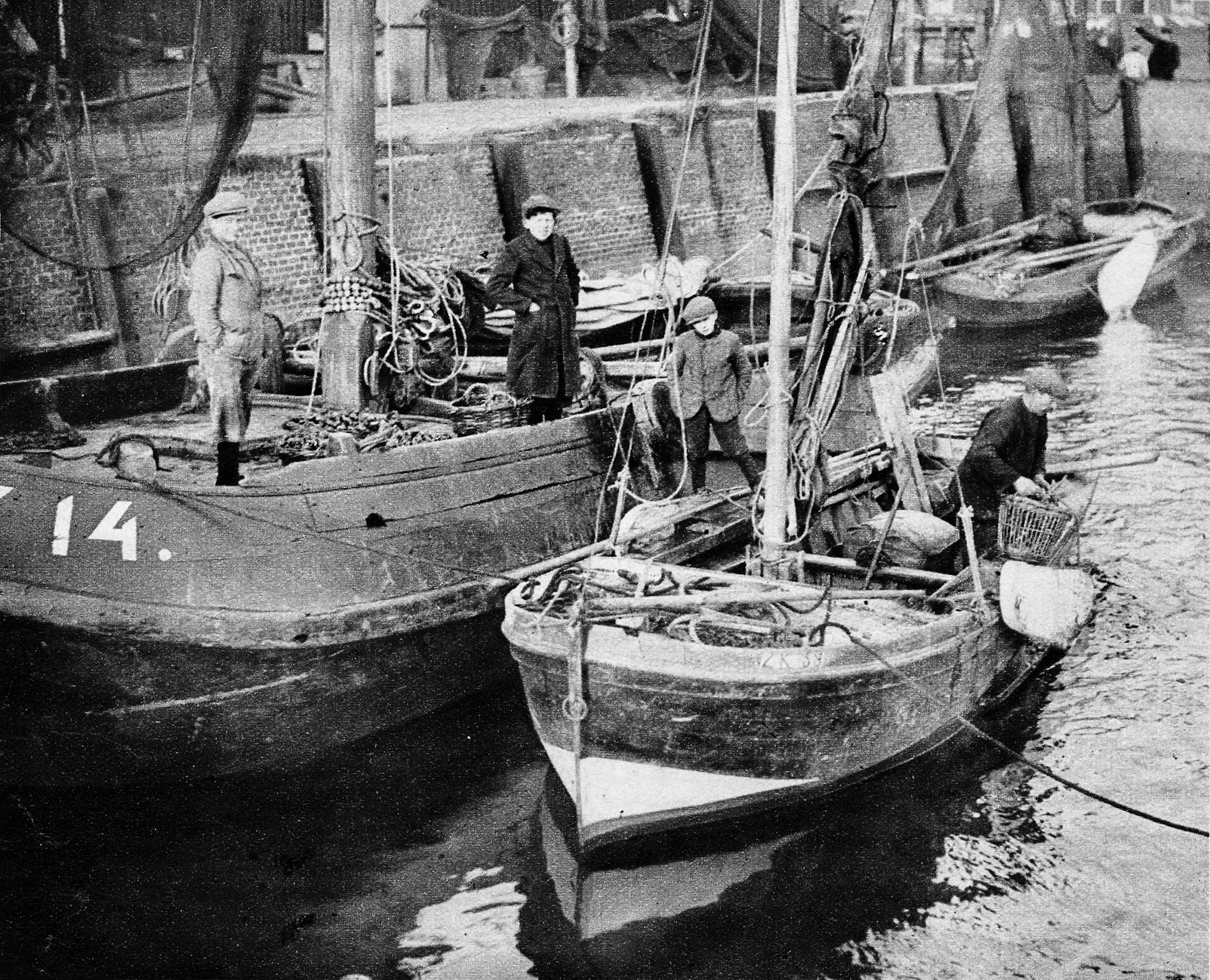 The ship Ebenhaëzer with its identifier ZK 14 (left) in the harbour of Zoutkamp, The Netherlands. It was owned by Betto and Maarten Bolt. The picture is probably made in 1932 and was published in a contemporary local Dutch newspaper (publication date and newspaper title on the press-clipping not noted, sadly). According to the picture's legend (in Dutch language) the ship was used by shell fishermen (Dutch language: mosselvischkers) indicated by baskets aboard ship. At the beginning of the 1930s the ship was already shabby when the German writer, taleteller and progressive pedagogue Martin Luserke (1880–1968) bought it in February 1934. Completely restored, renovated in white colour and developed as an auxiliary motor vessel it served as his floating poet's workshop named Krake (= octopus) until the end of 1938 while its identifier ZK 14 was still on its gaff sail. On 18 June 1944 the ship was destroyed by an Allied bomb on wharf in Hamburg-Finkenwerder.